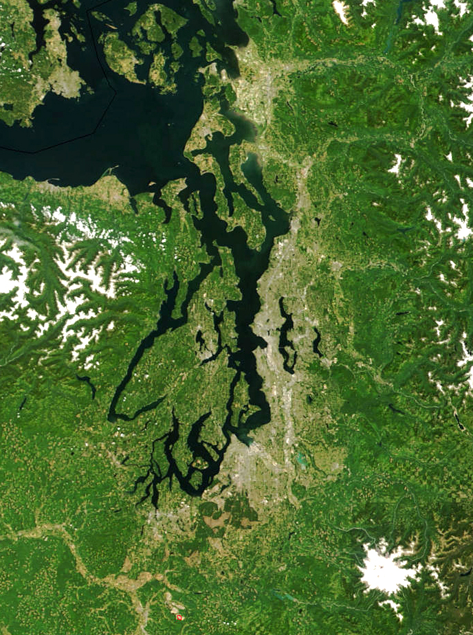 Image captured by MODIS sensor on NASA's Terra and Aqua satellites on July 19, 2003. Original image showed the 2003 Fawn Peak Complex Fire. Was cropped to the Puget Sound region.